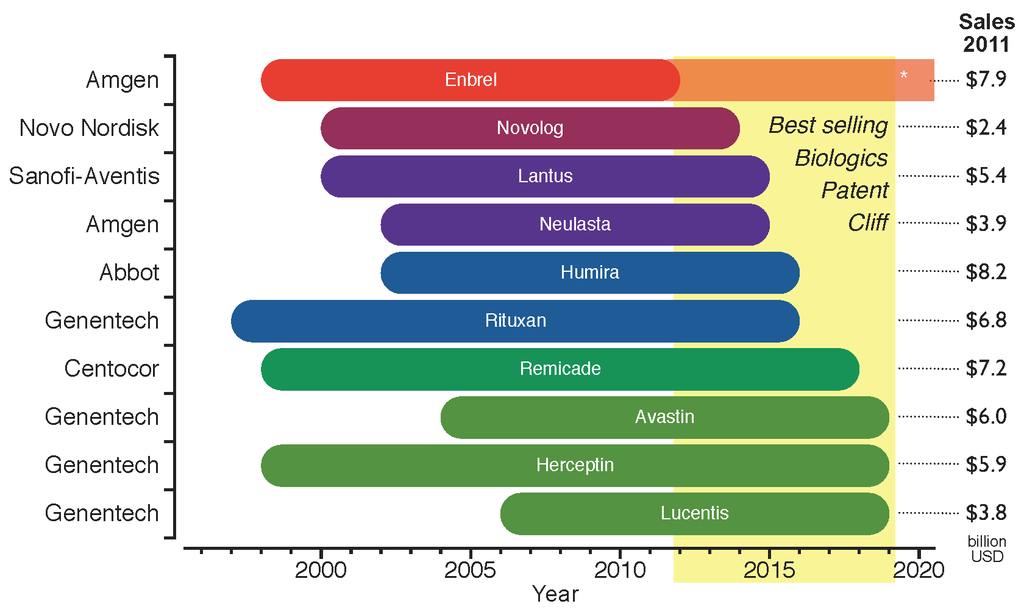 Top 10 selling biologics patent cliff (2012–2019)